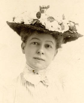 Autographed publicity photo of American actress Effie Ellsler.